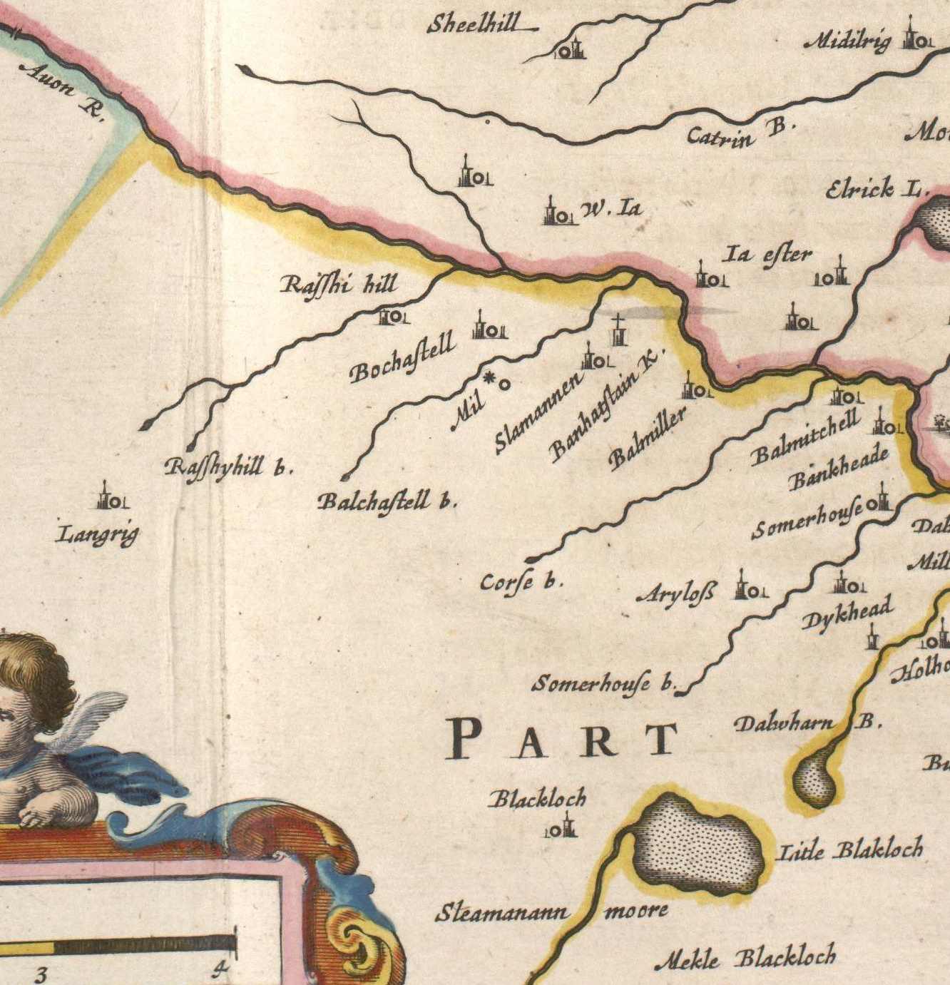 Blaeu's Map based on Pont's original showing the area around Slamannan